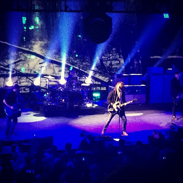 Soundgarden #superunknown #sxsw #itunesfestival